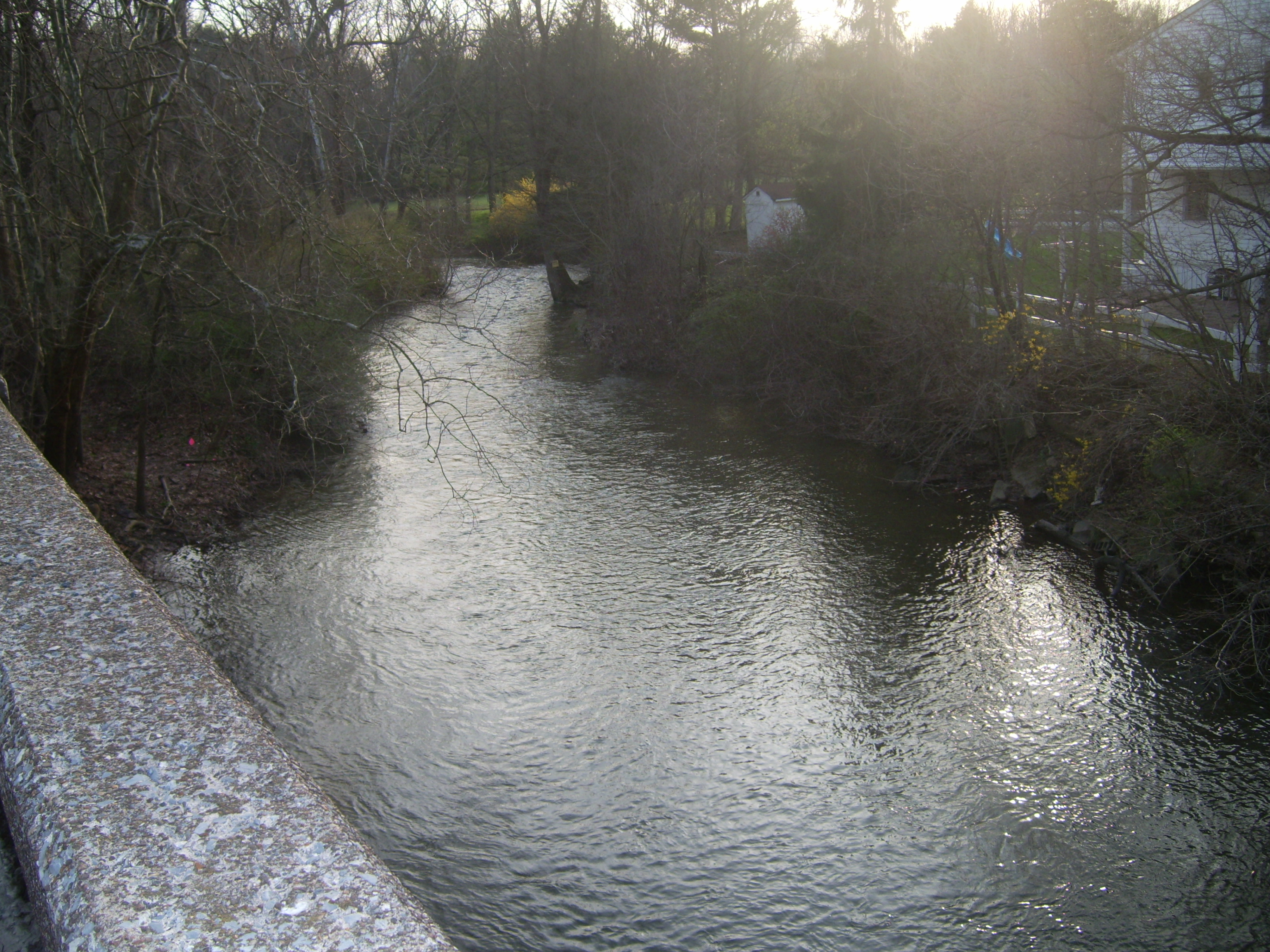 Jonestown Road Bridge over Manada Creek in Manadahill, PA.